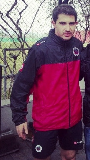 Bogdan Stancu13